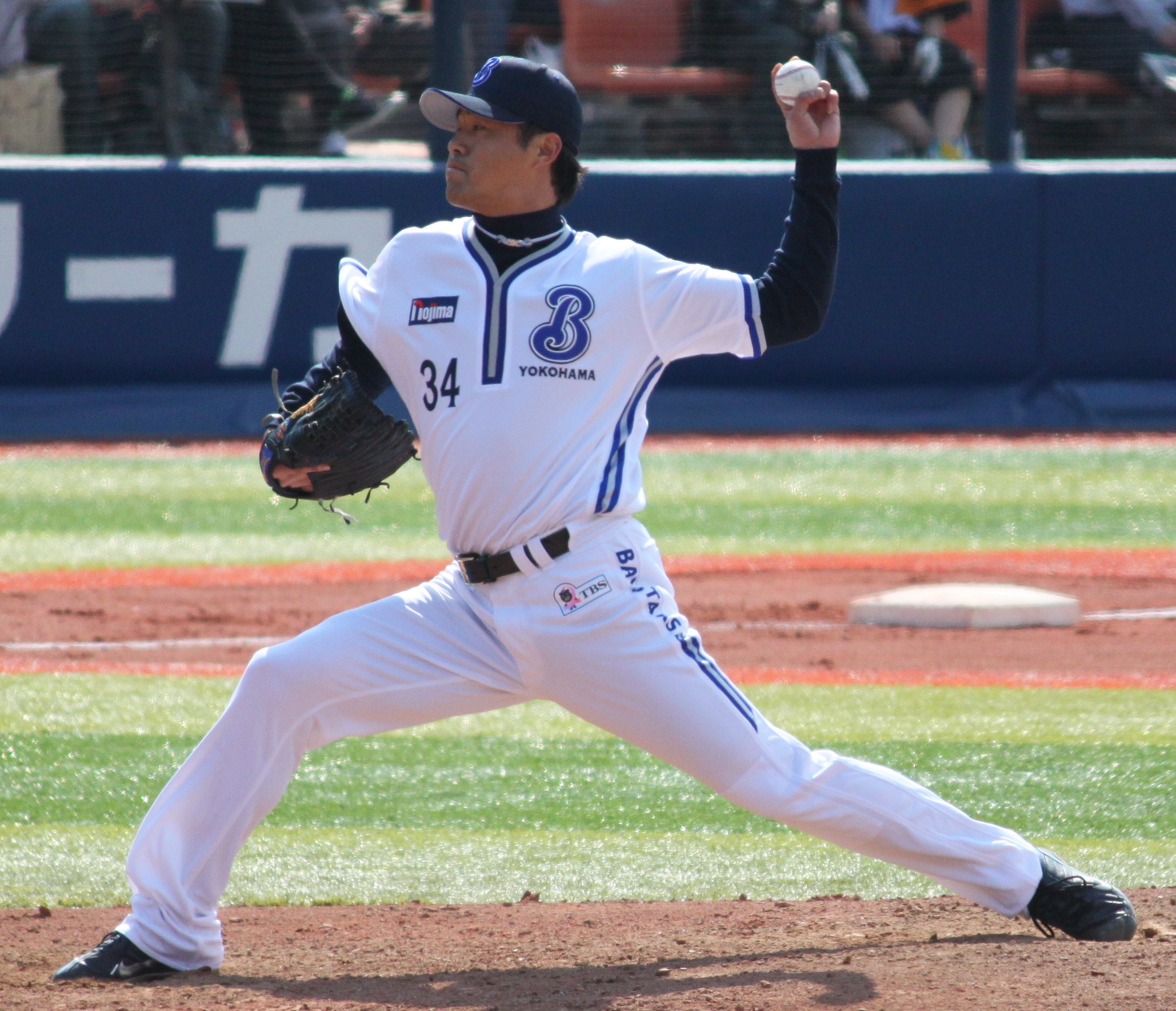 Takayuki Shinohara, pitcher of the Yokohama BayStars, at Yokohama Stadium.